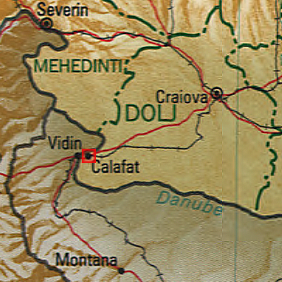 Map of Calafat Municipality, Romania.